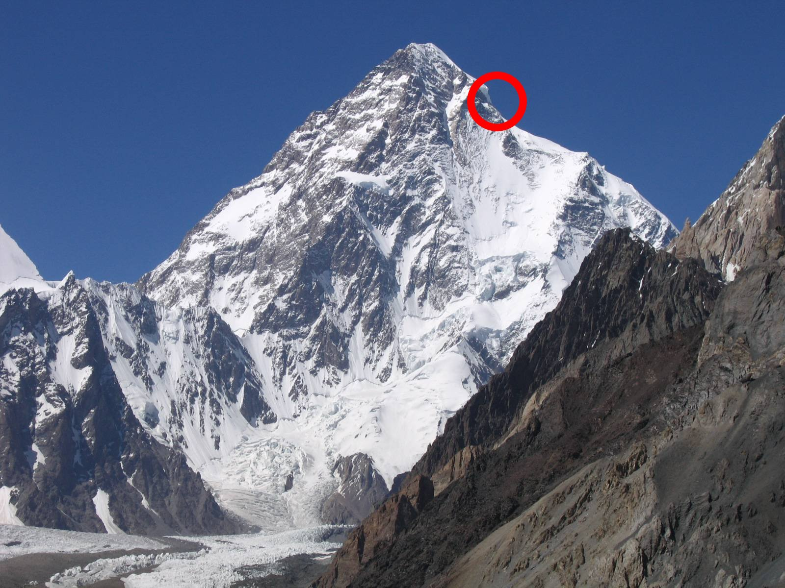 K2: position of 1954 expedition camp IX and bivouac Bonatti-Mahdi